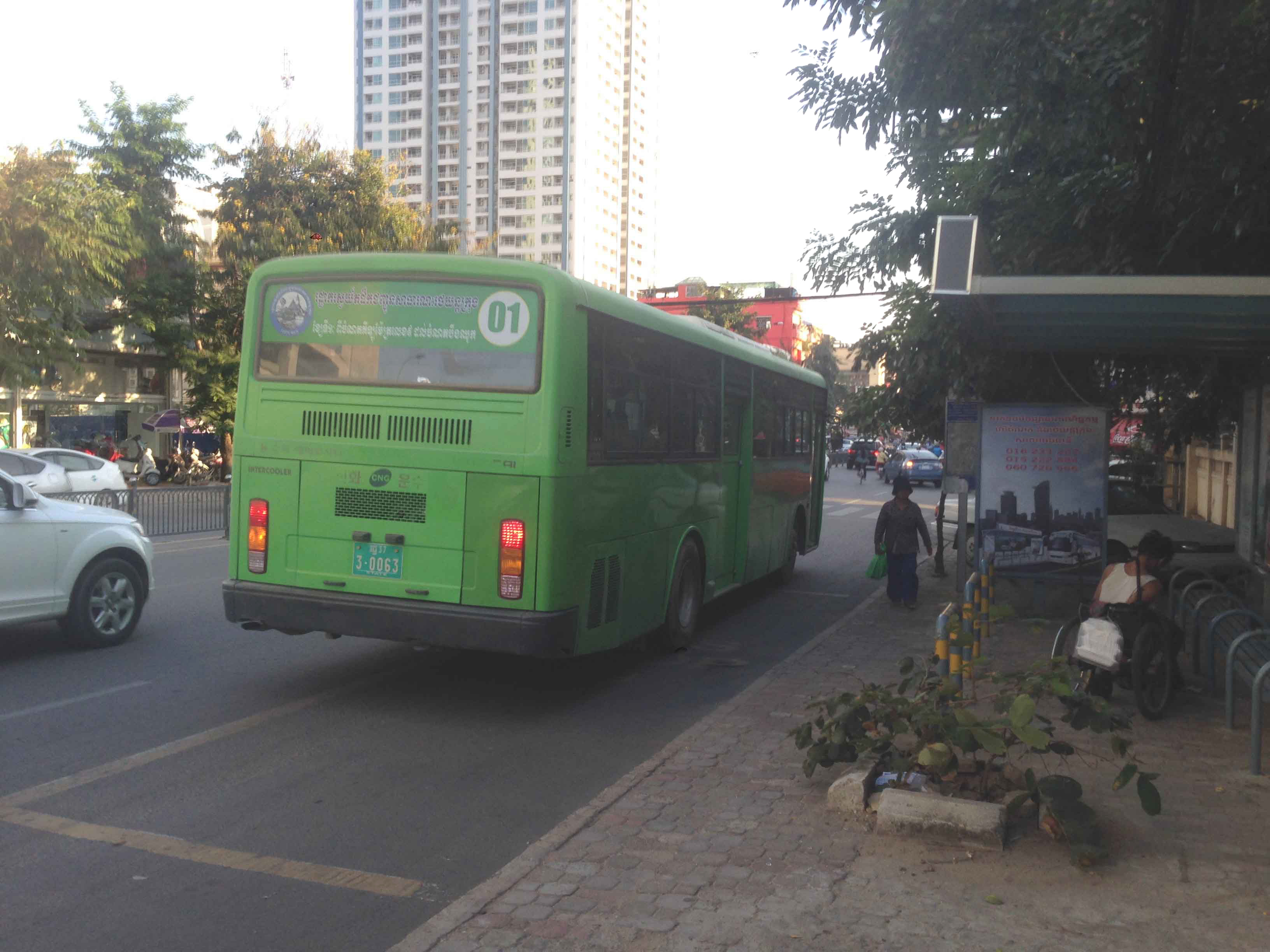 Phnom Penh BRT bus leaves Monivong-Sihanouk station